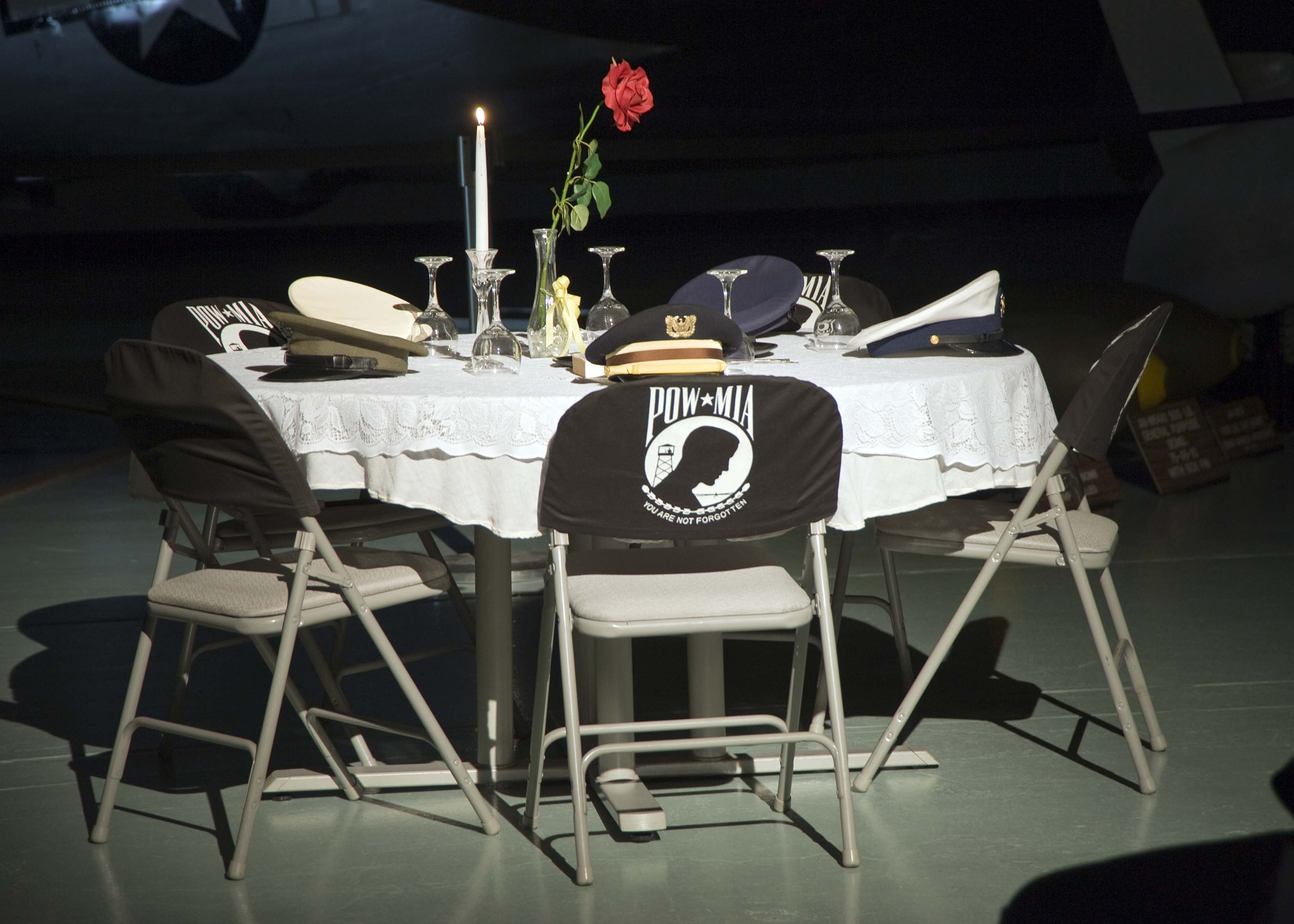 Missing man table, spotlighted at 2009 event at Eglin Air Force Base